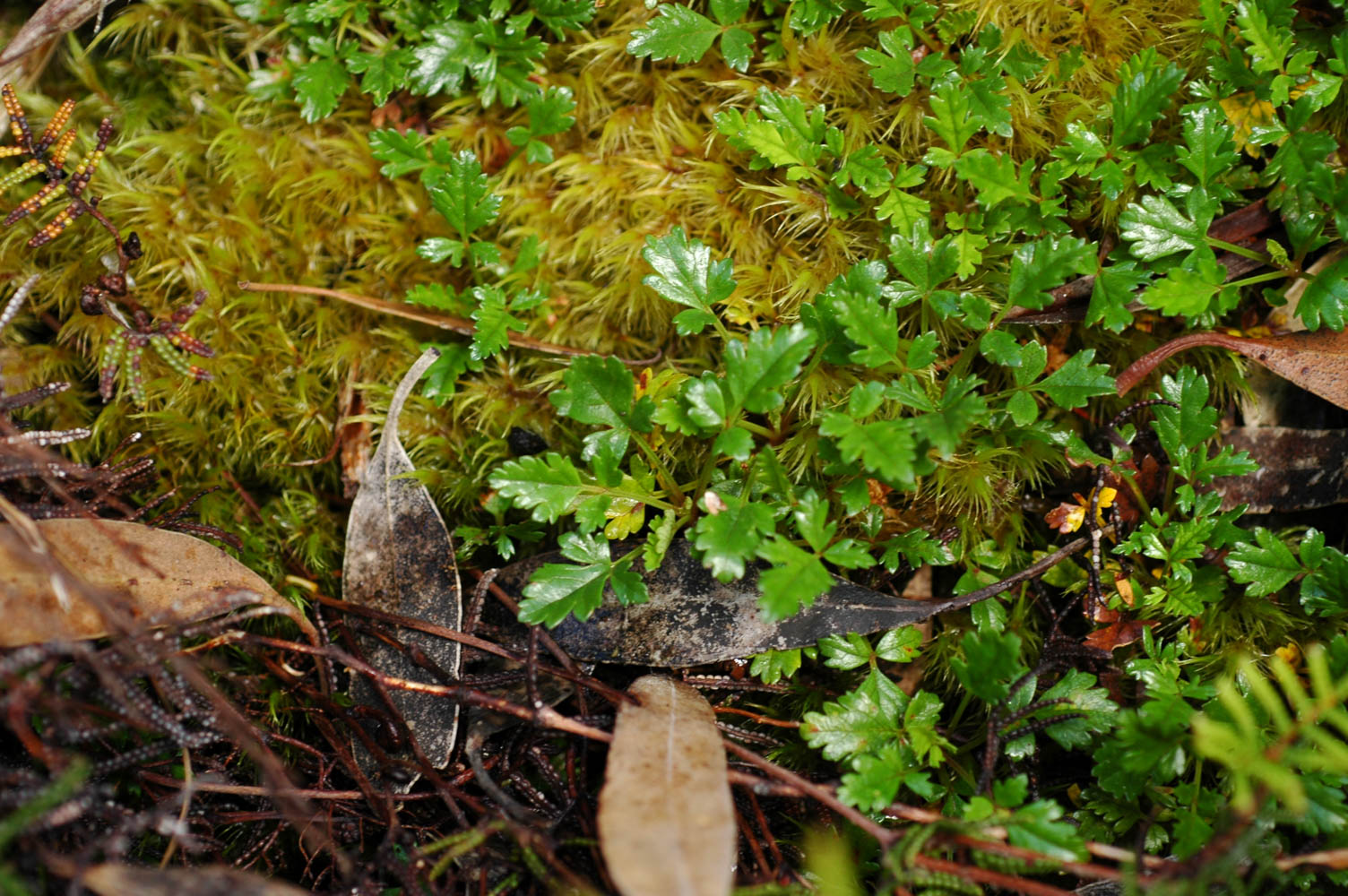 R. gunnianus cluster, photo: R. Wiltshire